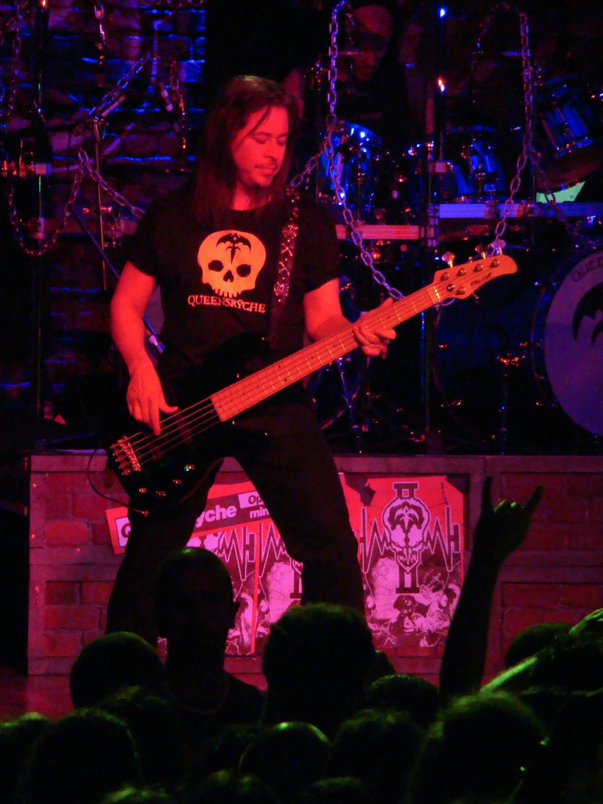 Eddie Jackson in Queensryche, on Operation Mindcrime II tour